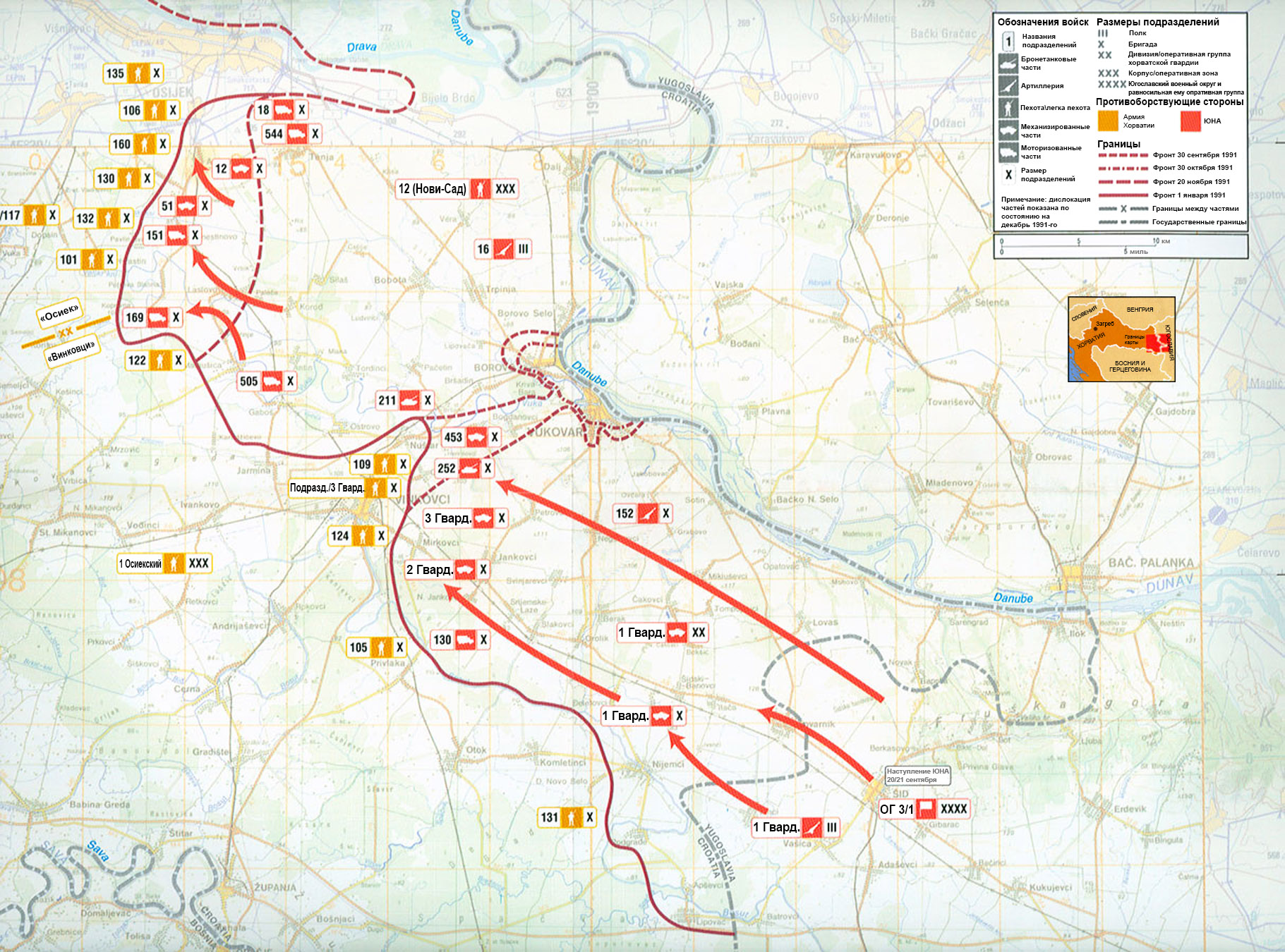 Map of military operations in eastern Slavonia, Croatia, September 1991 - January 1992